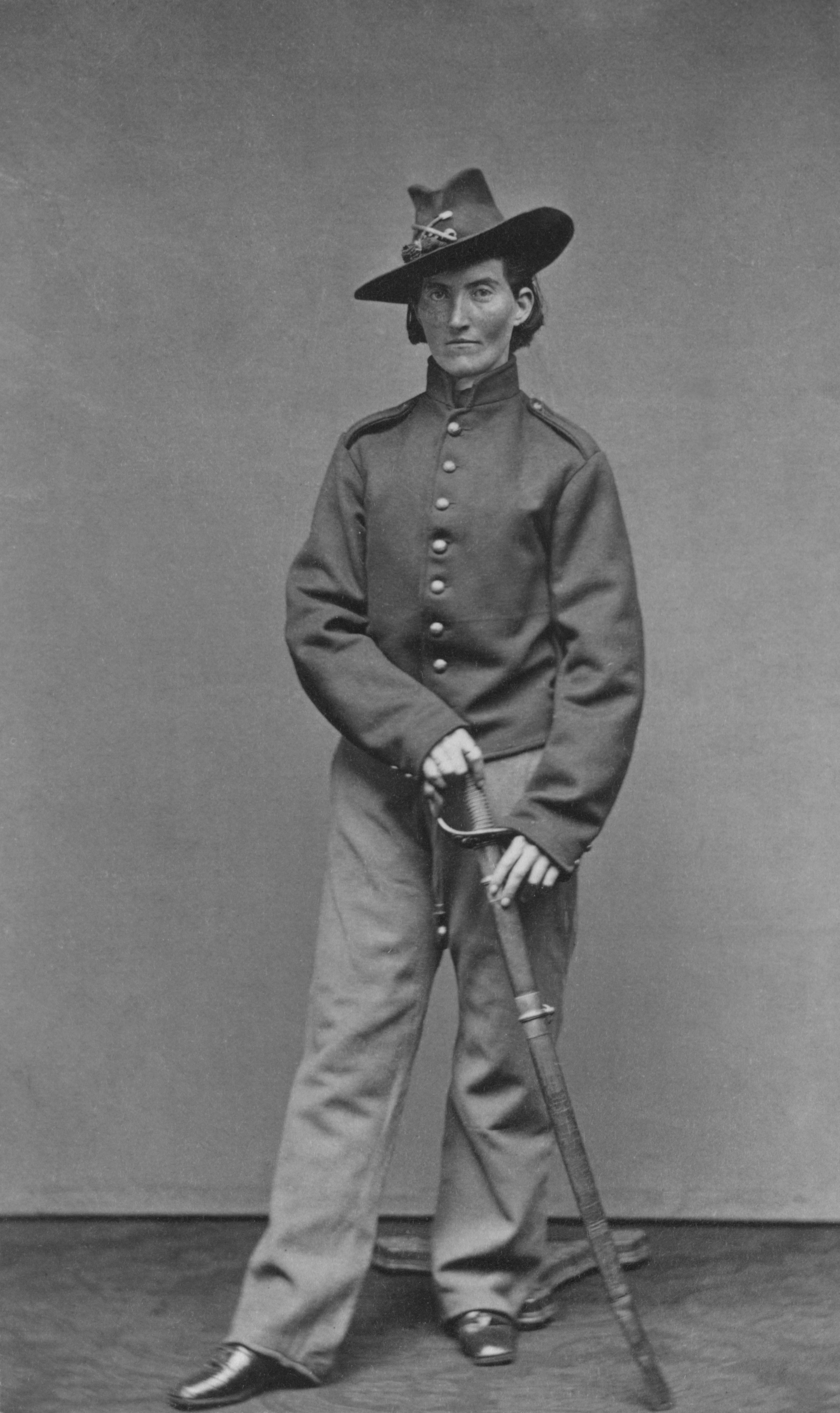 Frances Clalin, disguised as a man, served in the 44th Regiment, Missouri Artillery, Company I for 3 months and in the 13th Missouri Cavalry, Company A, for 19 months and returned to Minneapolis after service.